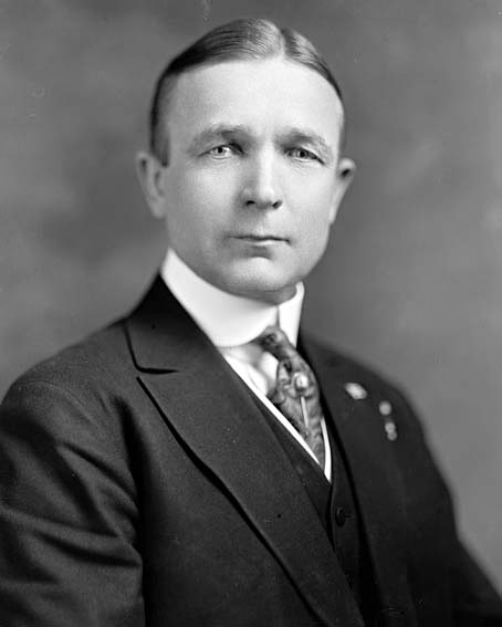 Adolph Olson Eberhart, Governor of Minnesota